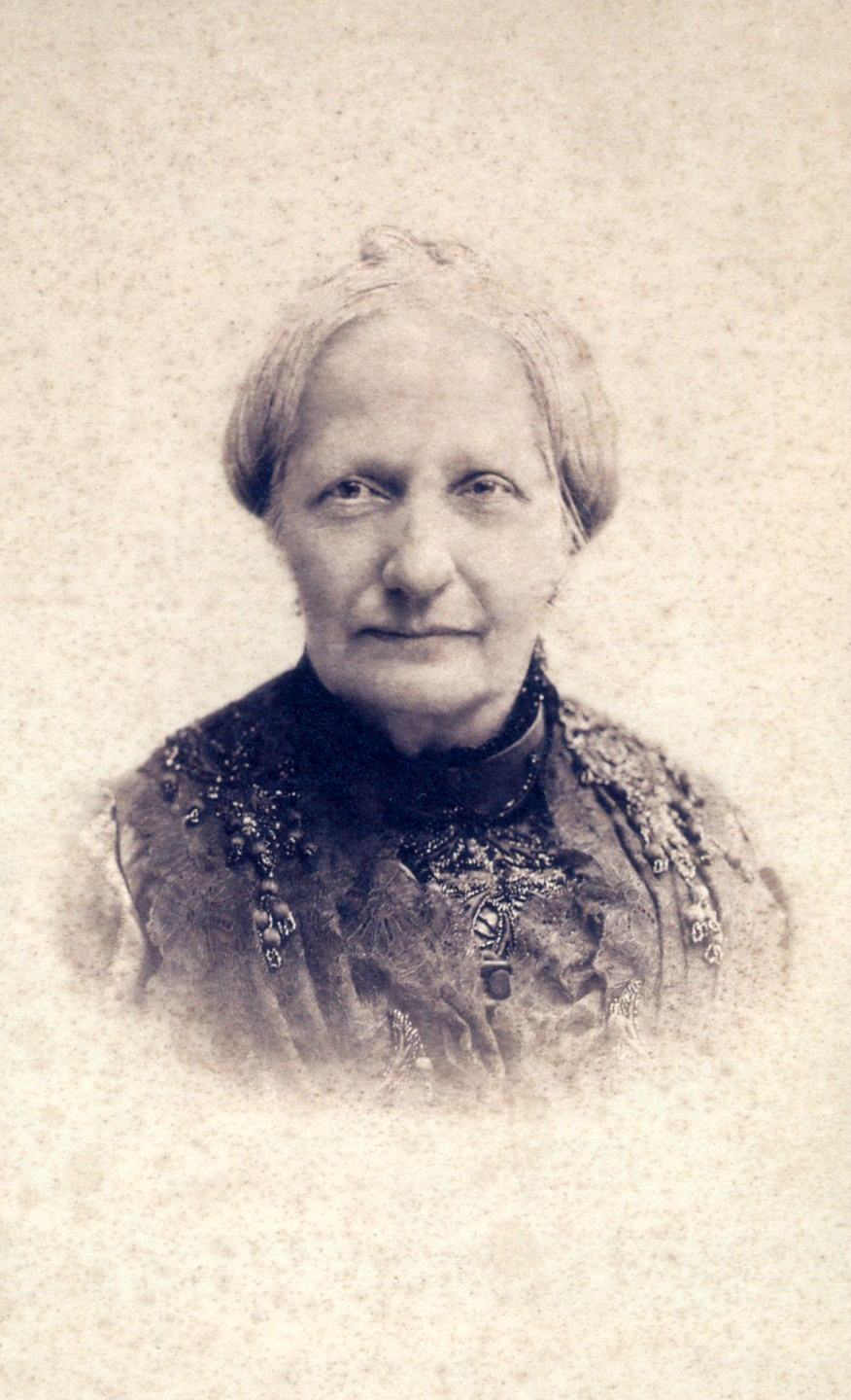 Teresa Cristina, Empress of Brazil, wife of Pedro II, 1888.